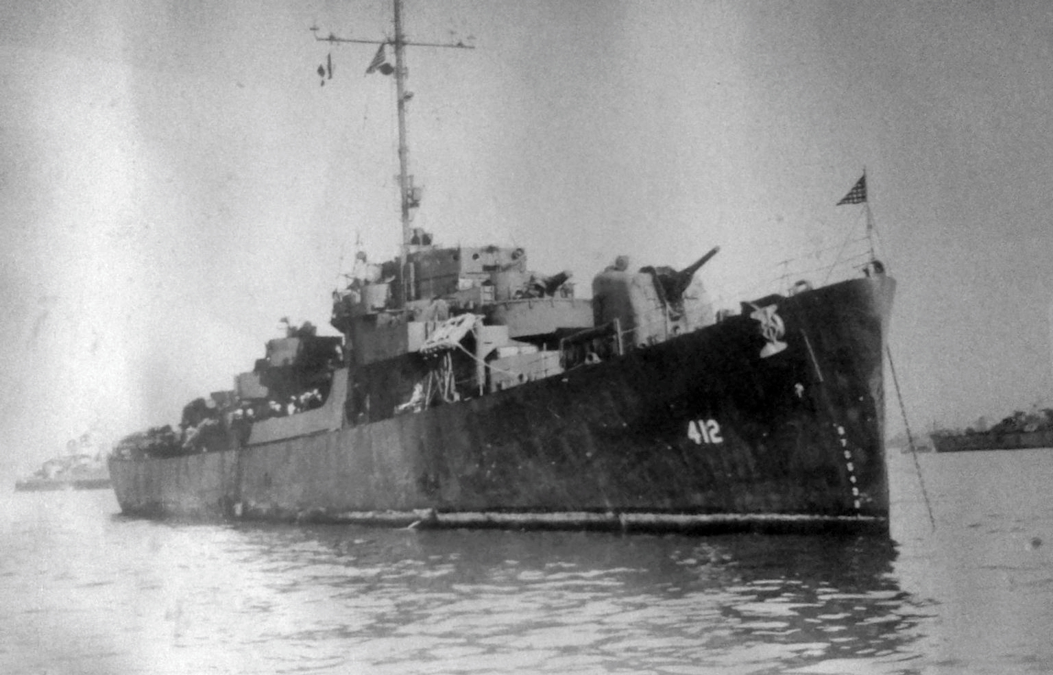 The U.S. Navy destroyer escort USS Walter C. Wann (DE-412) at anchor, circa in 1945. She is painted in Camouflage Measure 21.